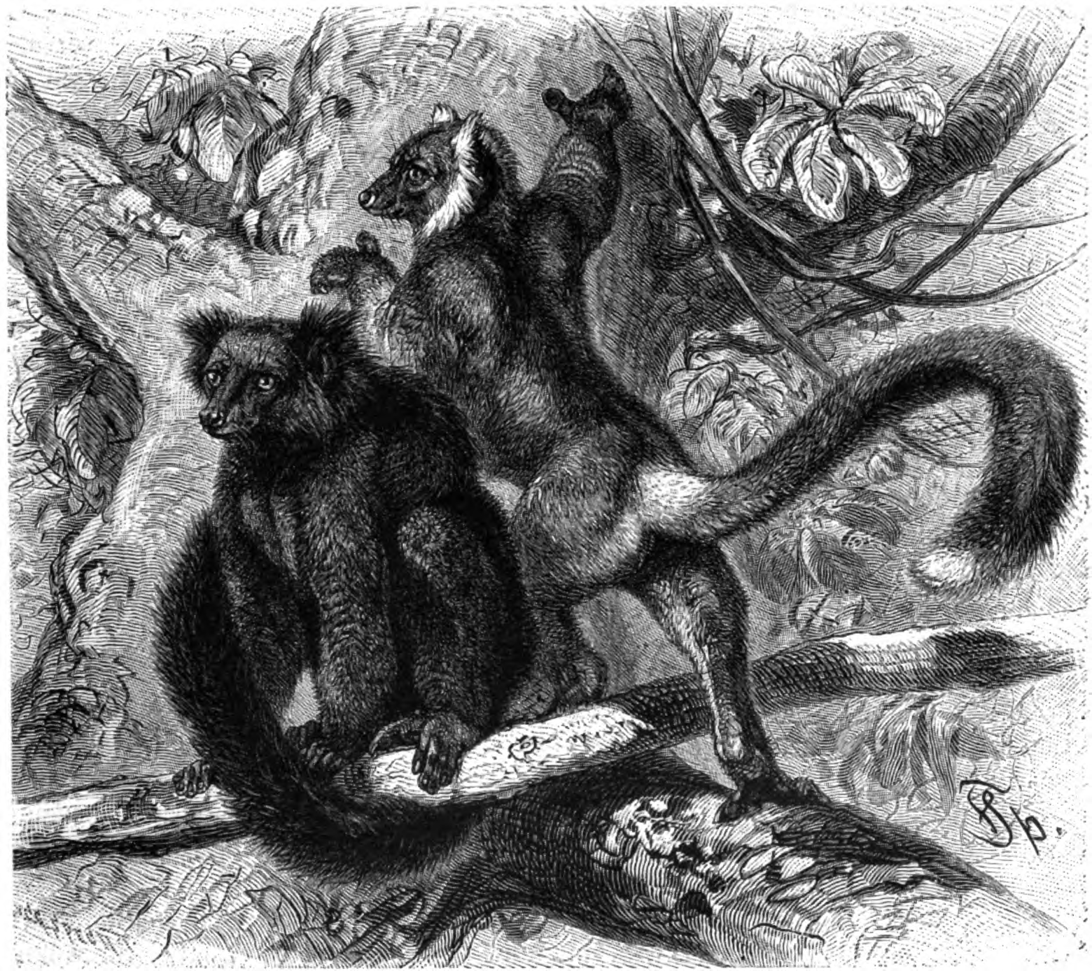 Black lemur (Eulemur macaco)